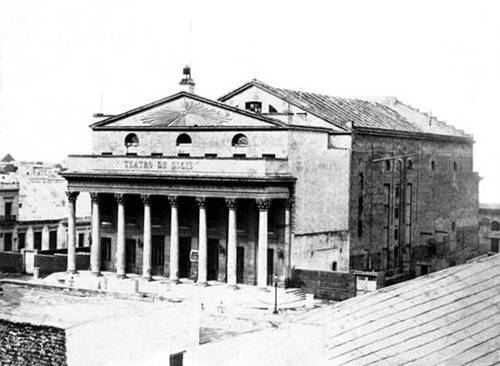 Teatro Solís, Montevideo (ca. 1890)